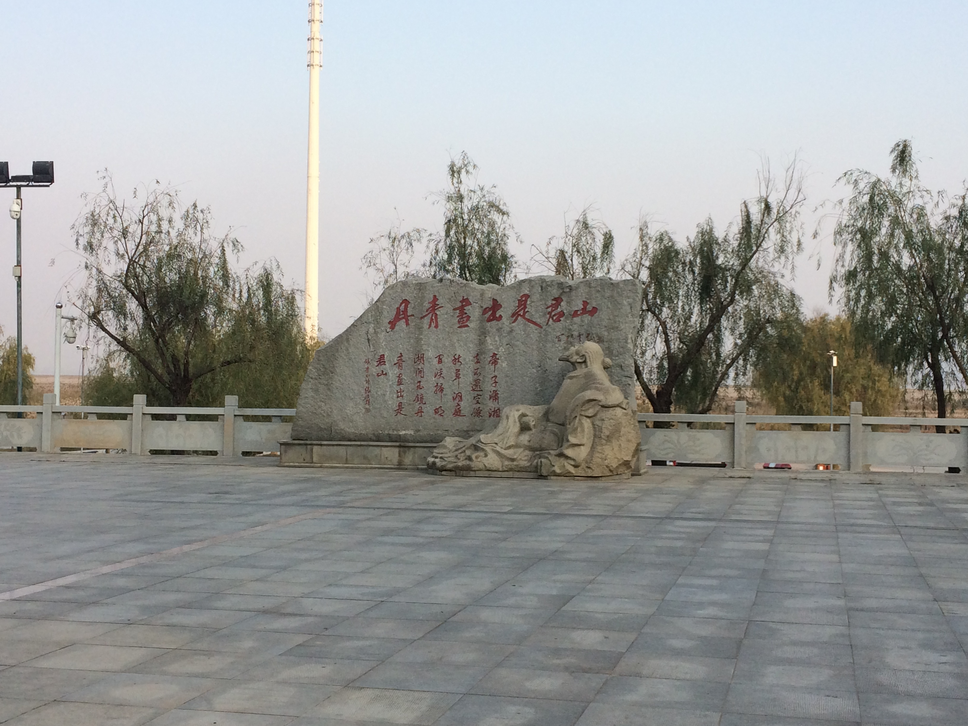 A square in Junshan Island.